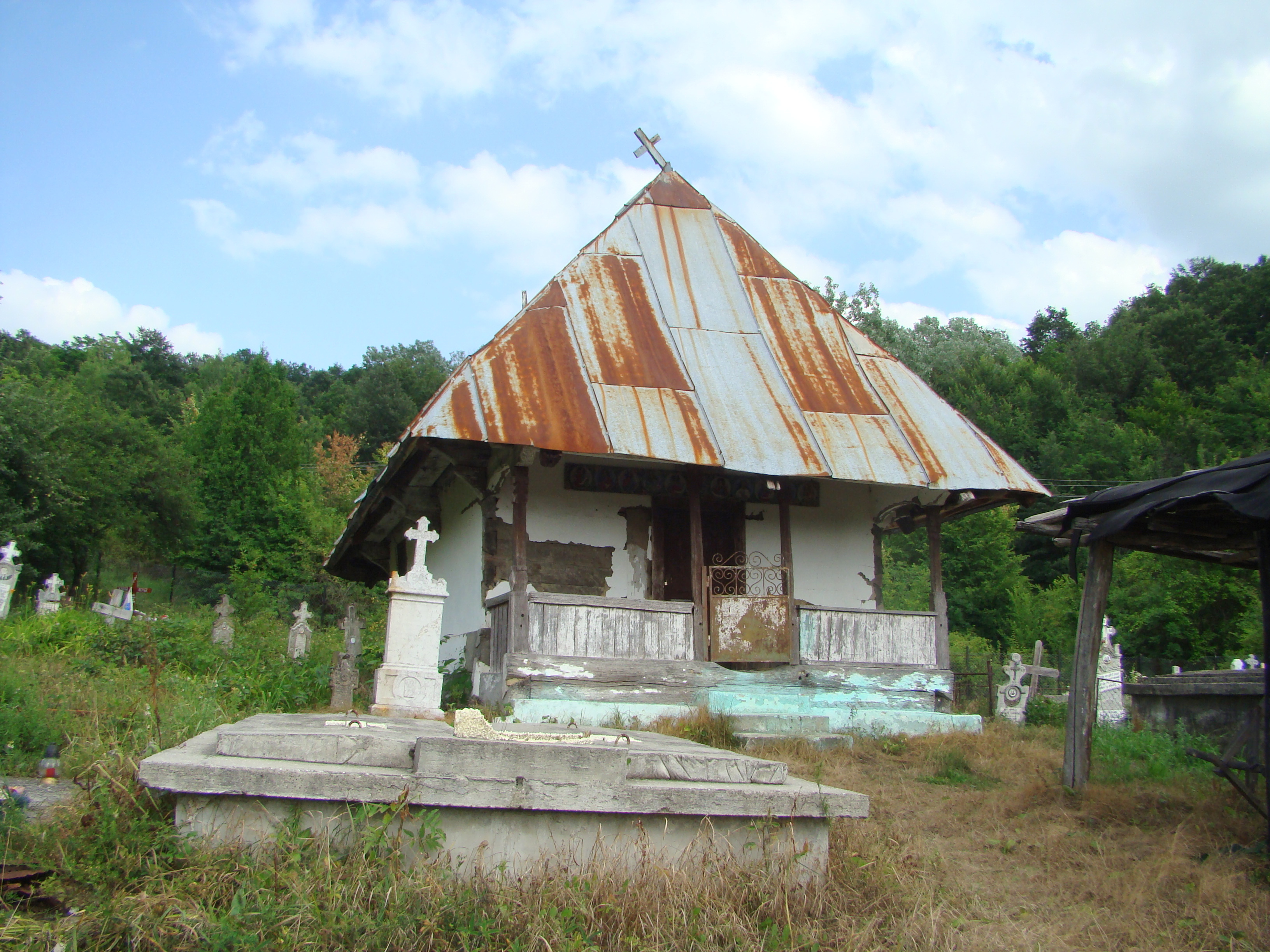 Wooden church in Doseni, Gorj county, Romania